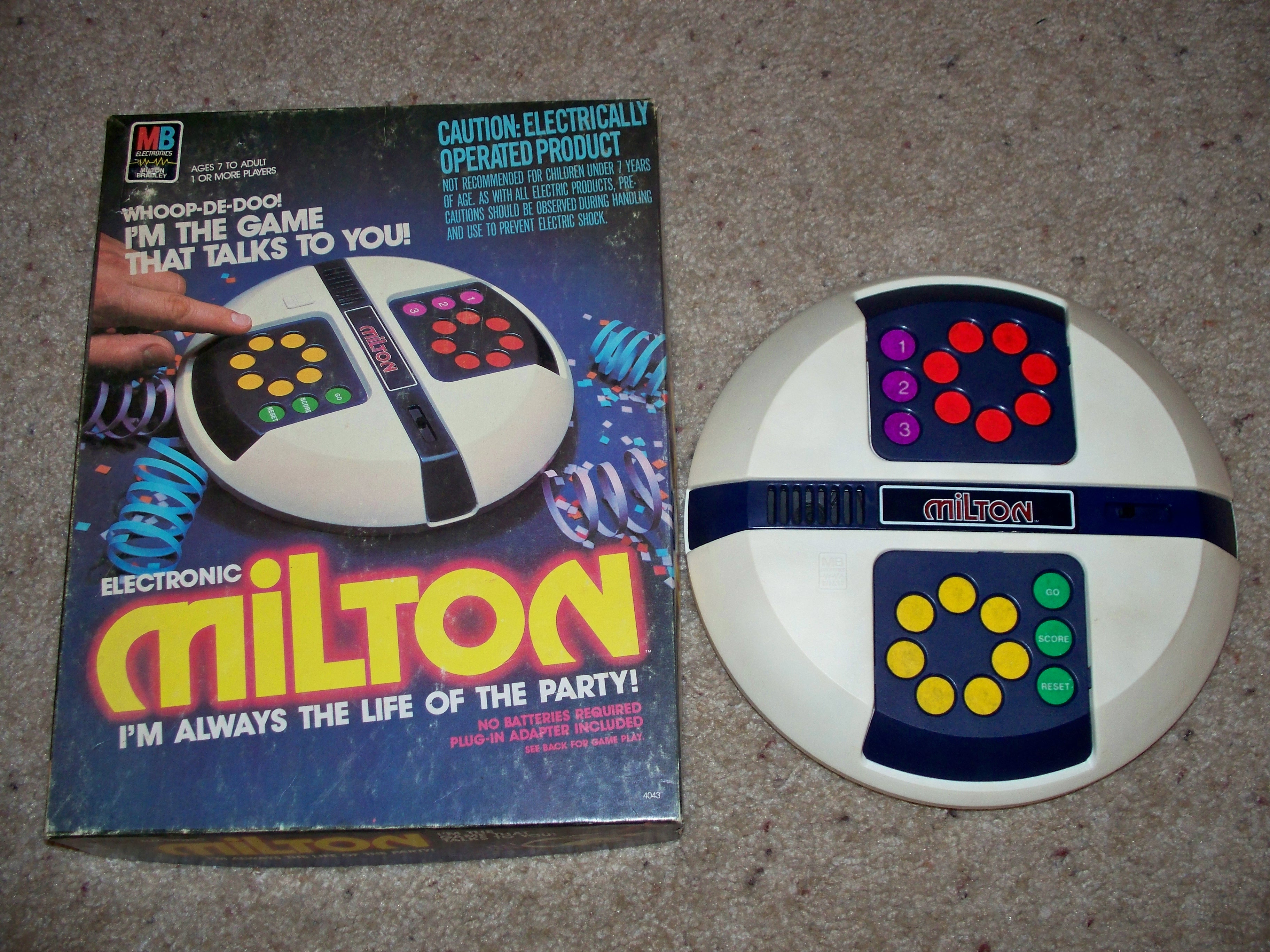 A photo of the Milton electronic game.